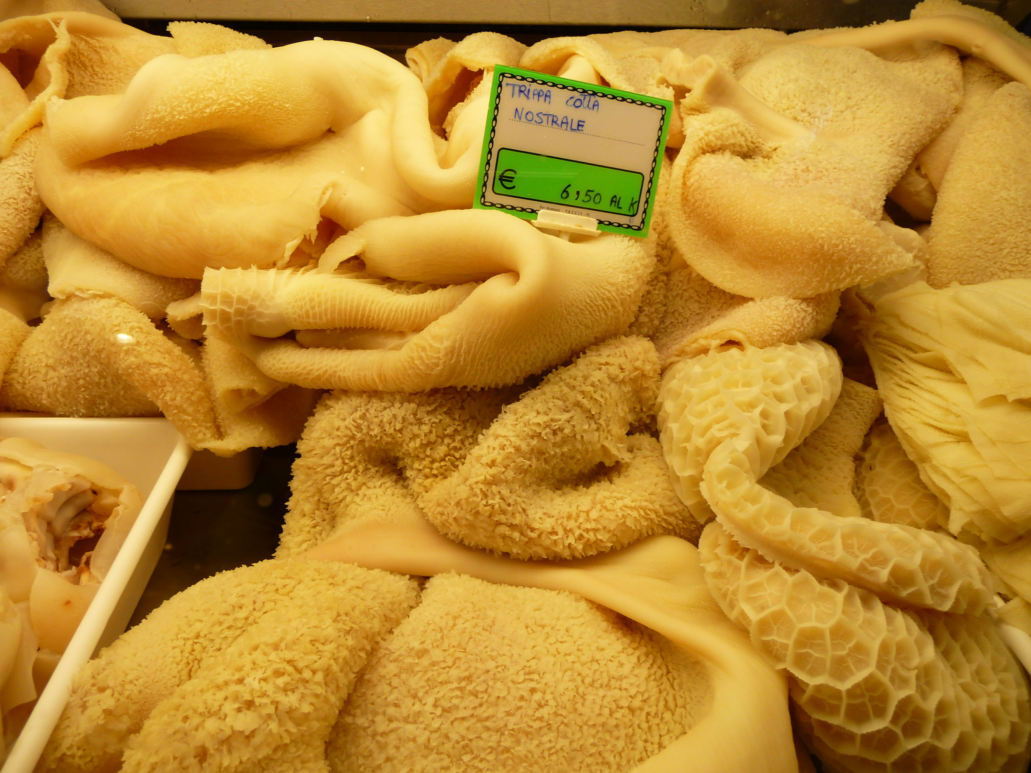 tripes on an market in Florence